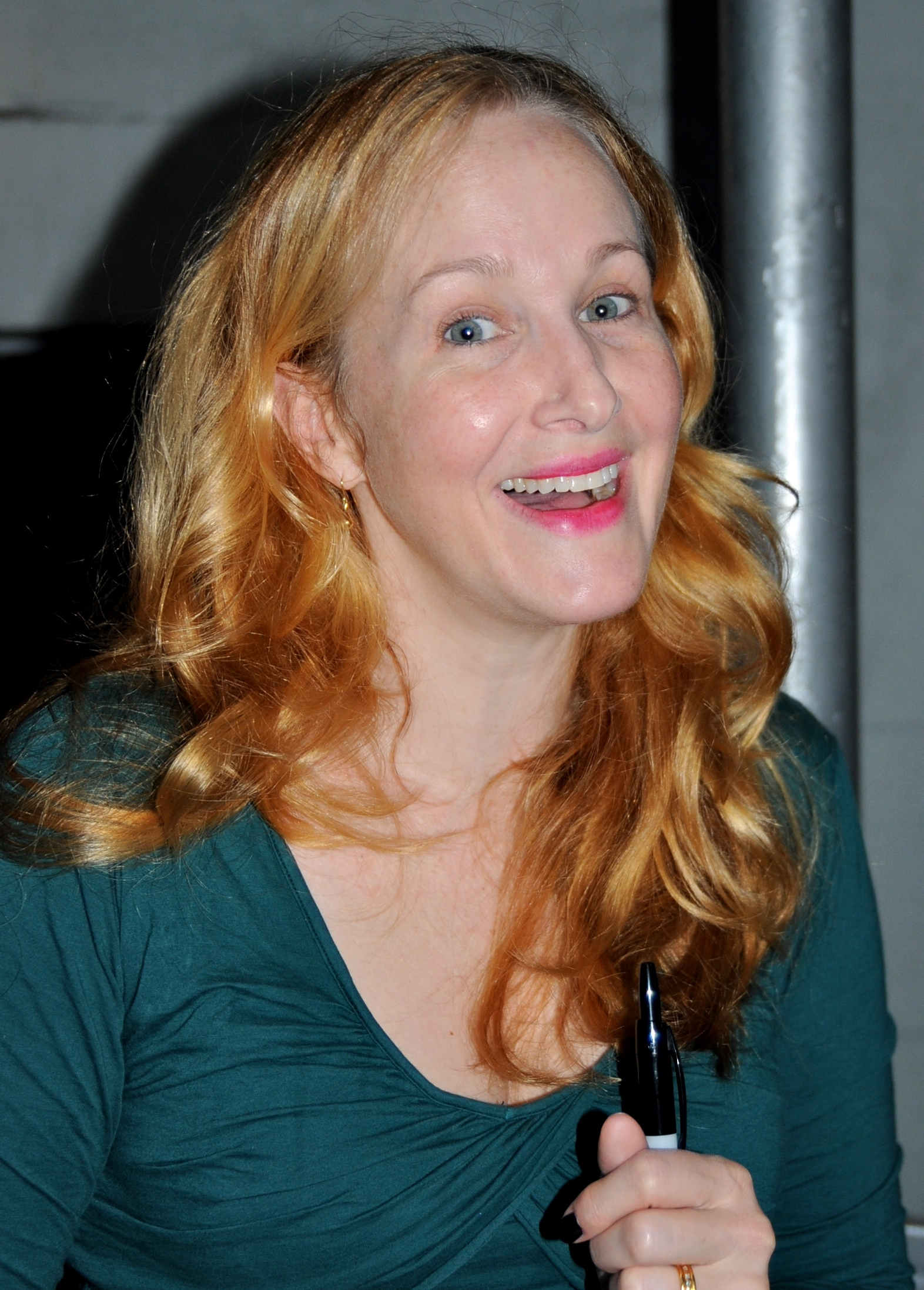 Katie Finneran in Annie The Musical. Photo taken on October 6, 2012.